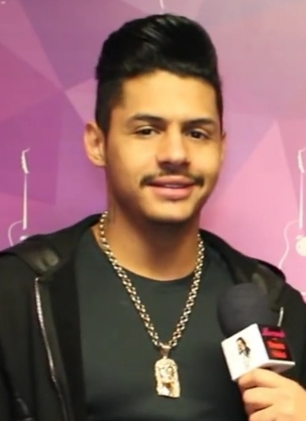 Hungria em 2018.